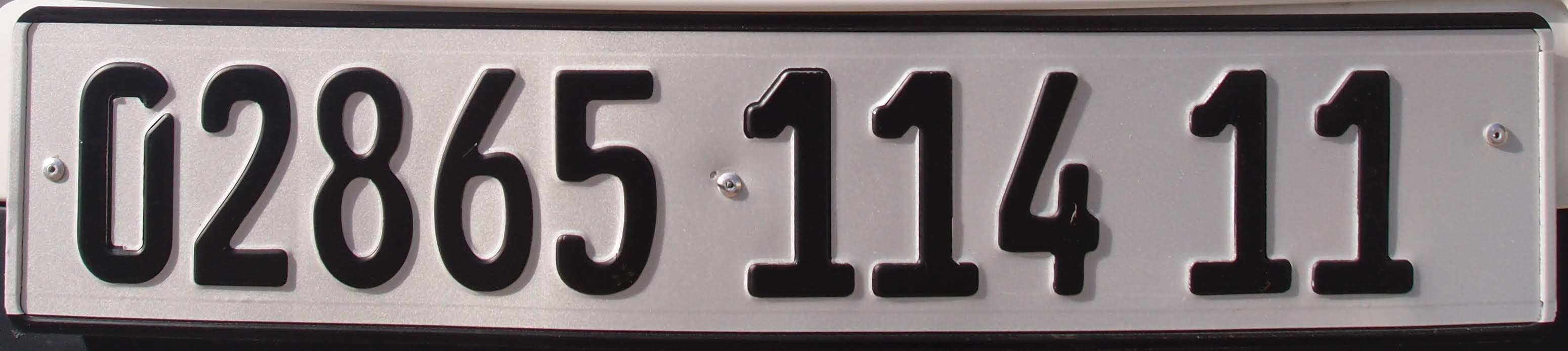 Algeria vehicle registration plate, white, affixed to the front of the vehicle